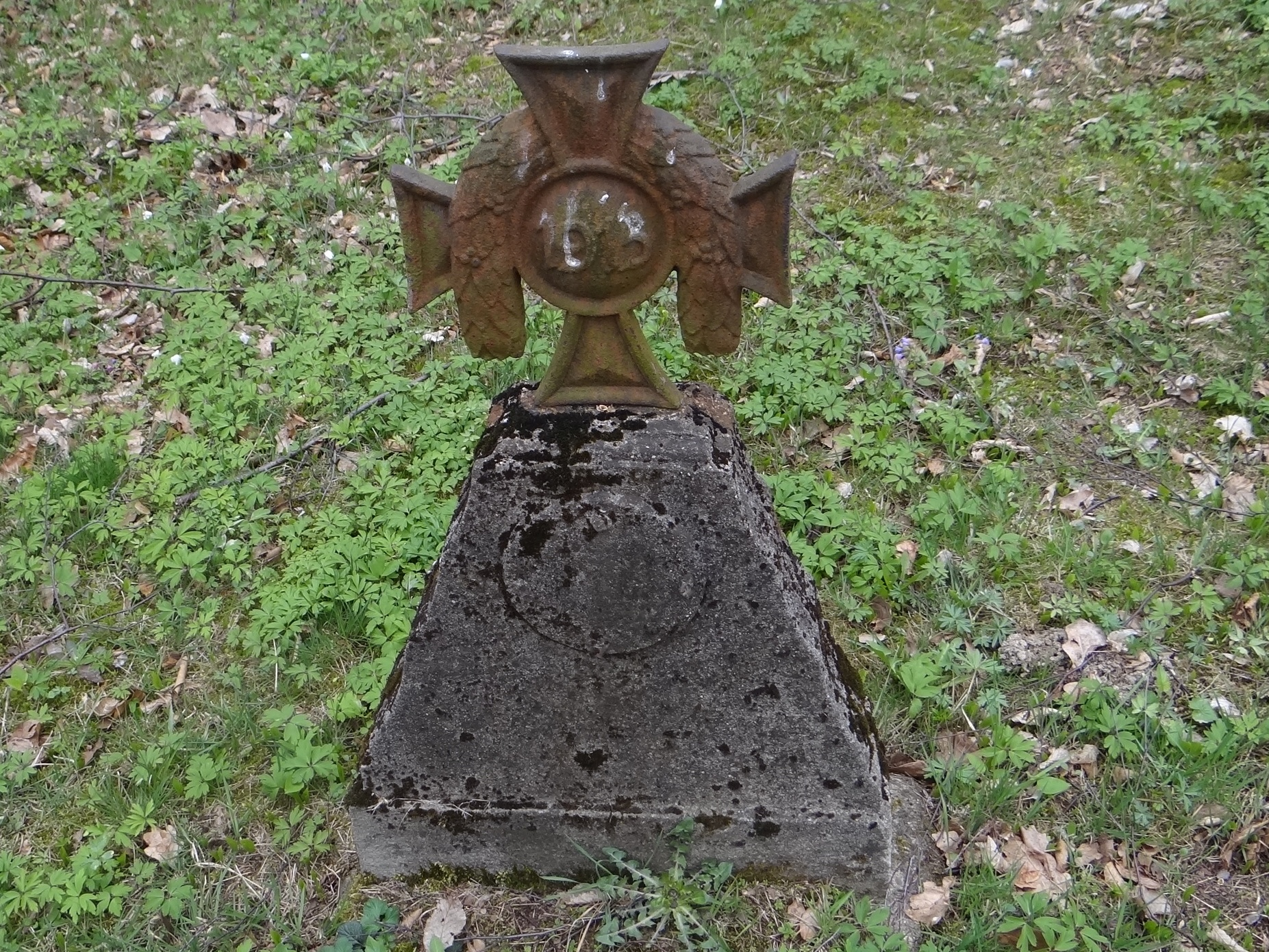 World War I Cemetery nr 149 - Chojnik